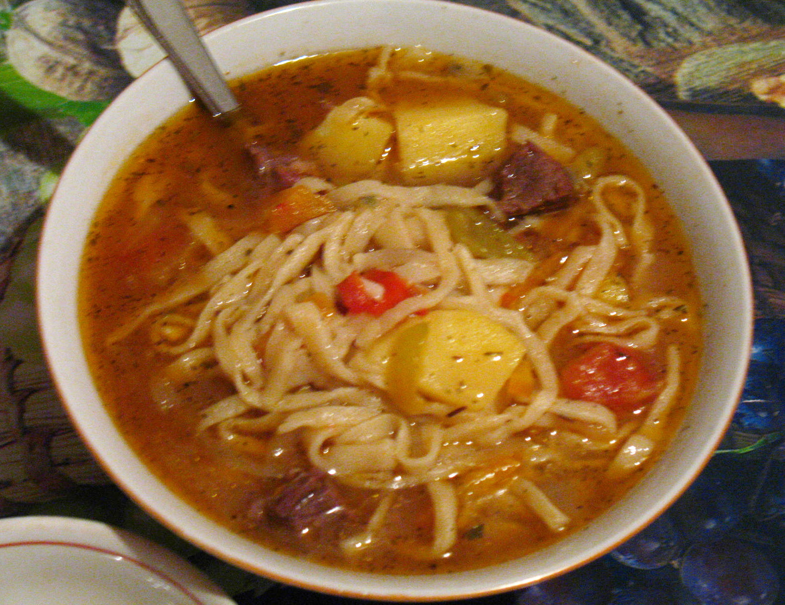 A bowl of kesme Кыргызча: Бир гердем кесме